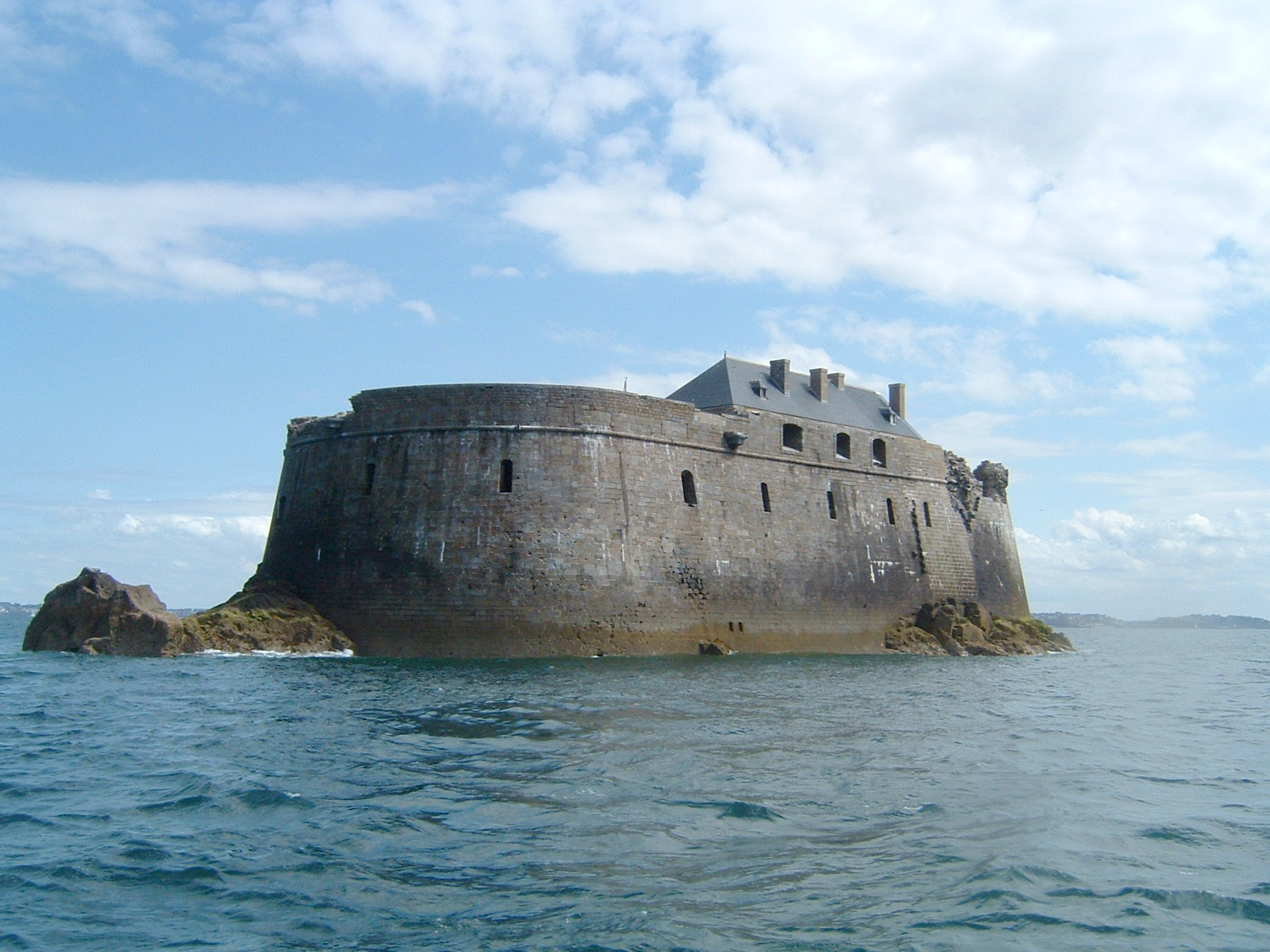 La Conchée fort, off the coast of Saint-Malo, France